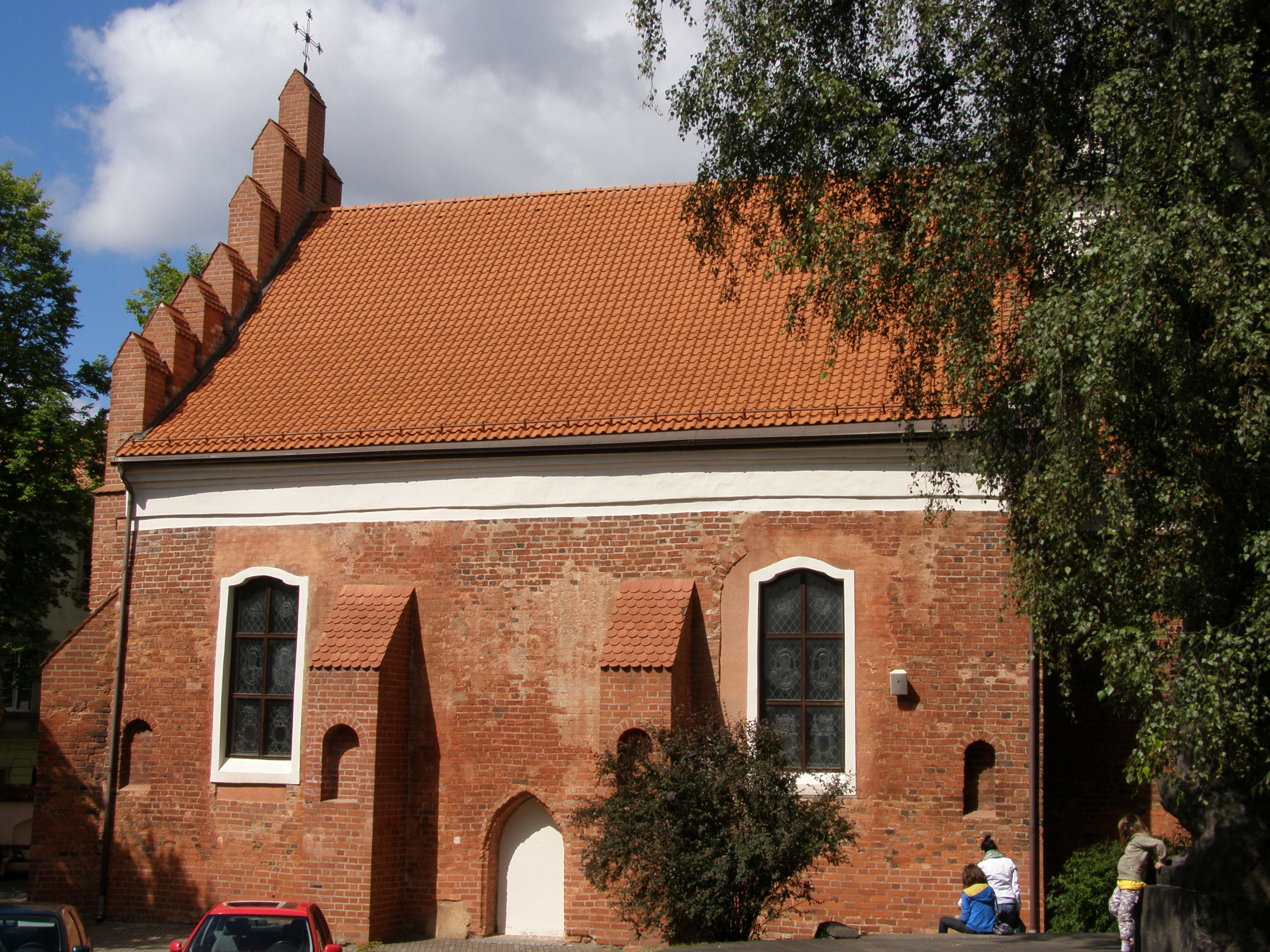 St. Nicholas Church, Vilnius